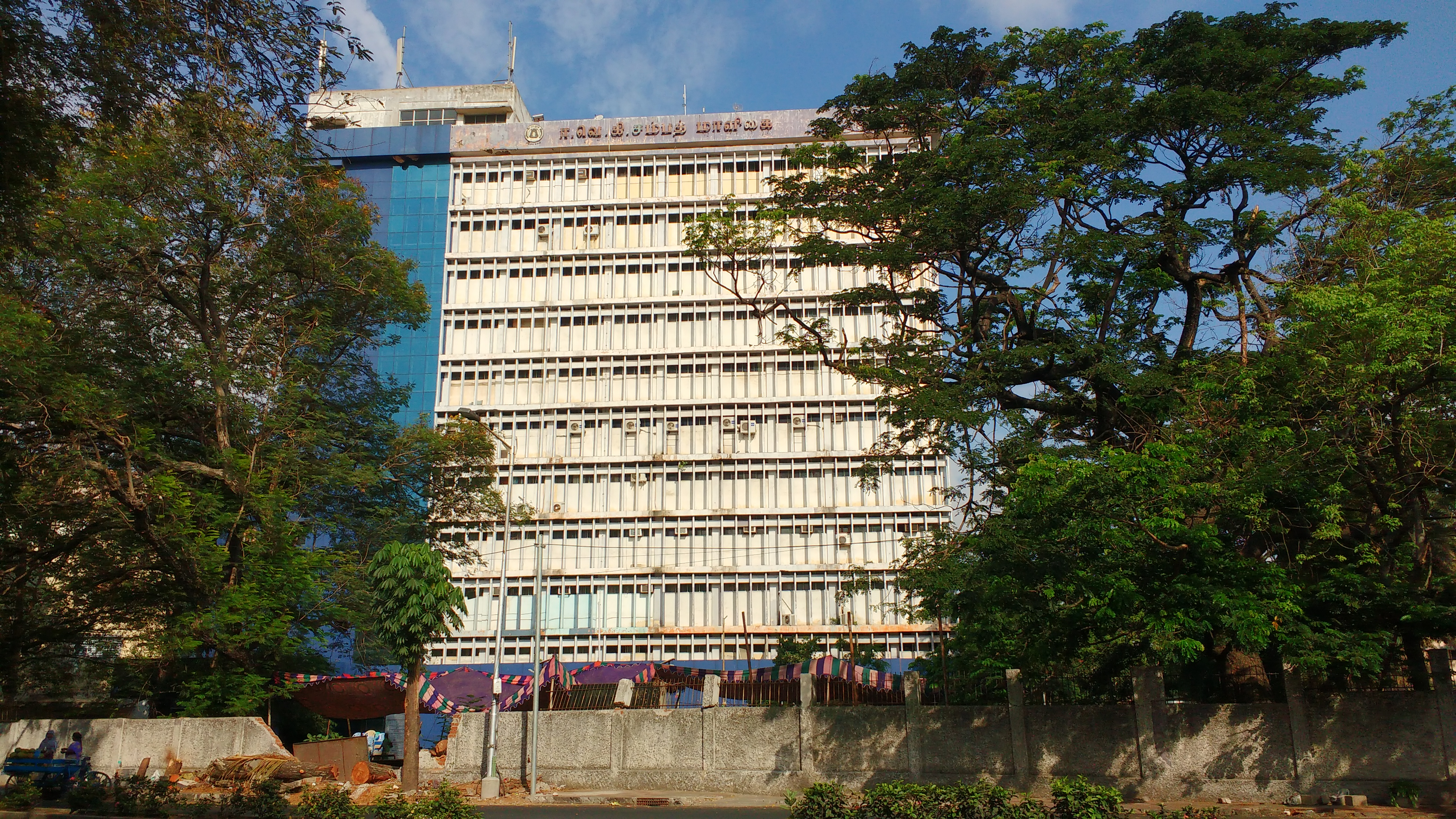 EVK Sambath Maaligai , Nungambakkam, Chennai